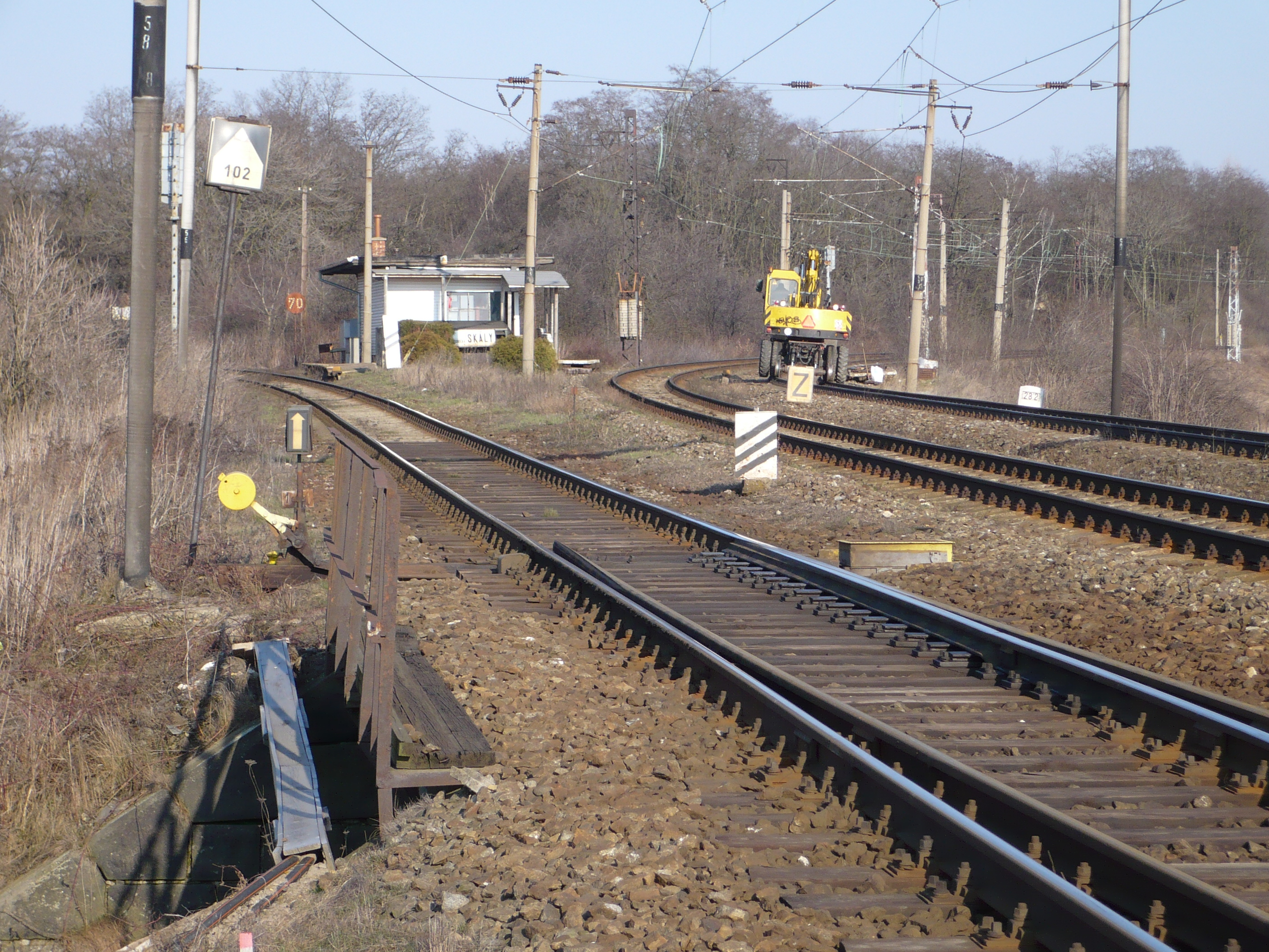 Branch Skály in Prague. Railway line to Turnov to the left, to Lysá nad Labem to the right.